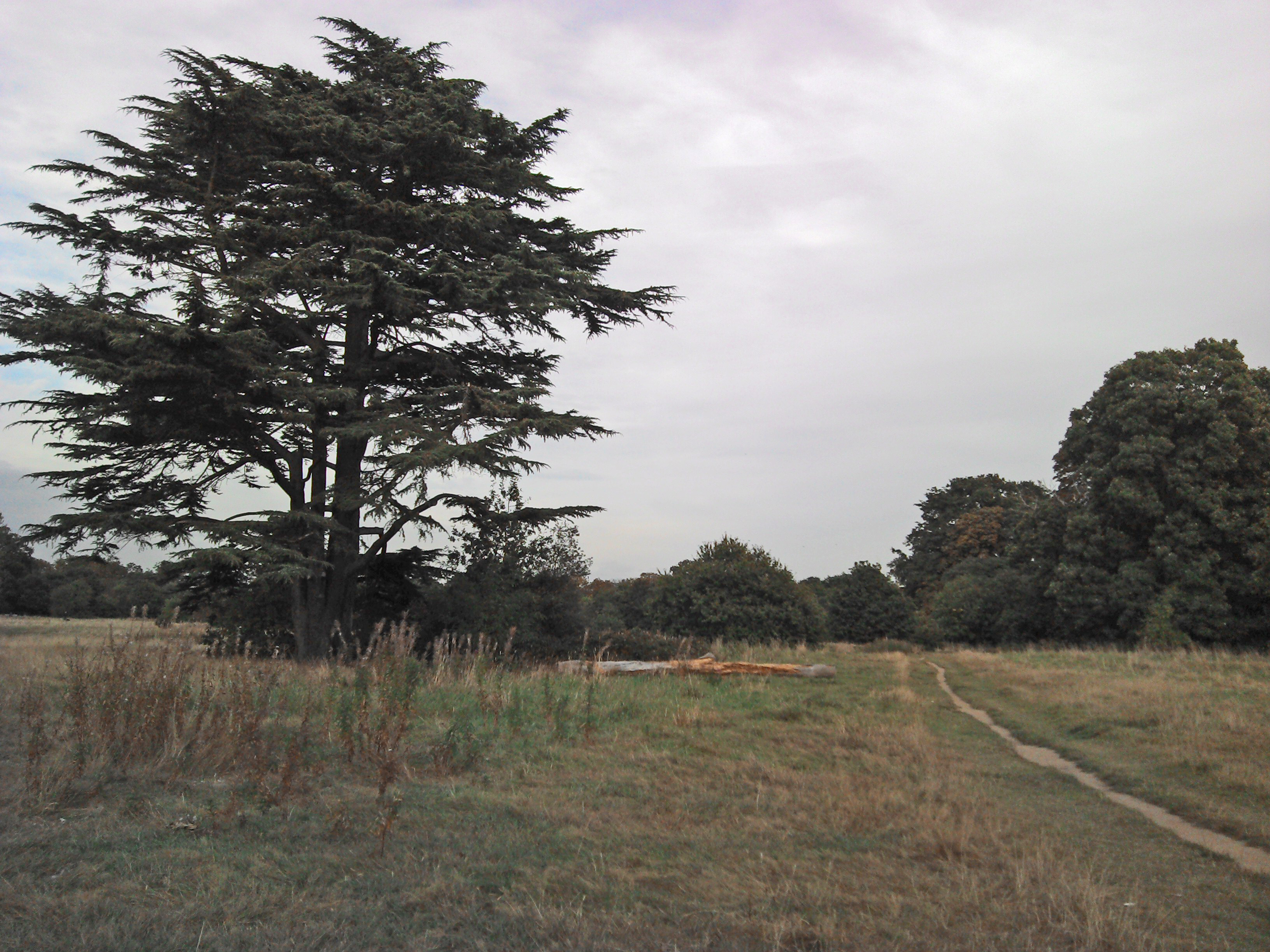 View within Sunbury Park, England an area of near heath/common surrounding the much photographed Walled Garden and much loved by dog walkers and children on bikes. Friday, 21 September, 2012